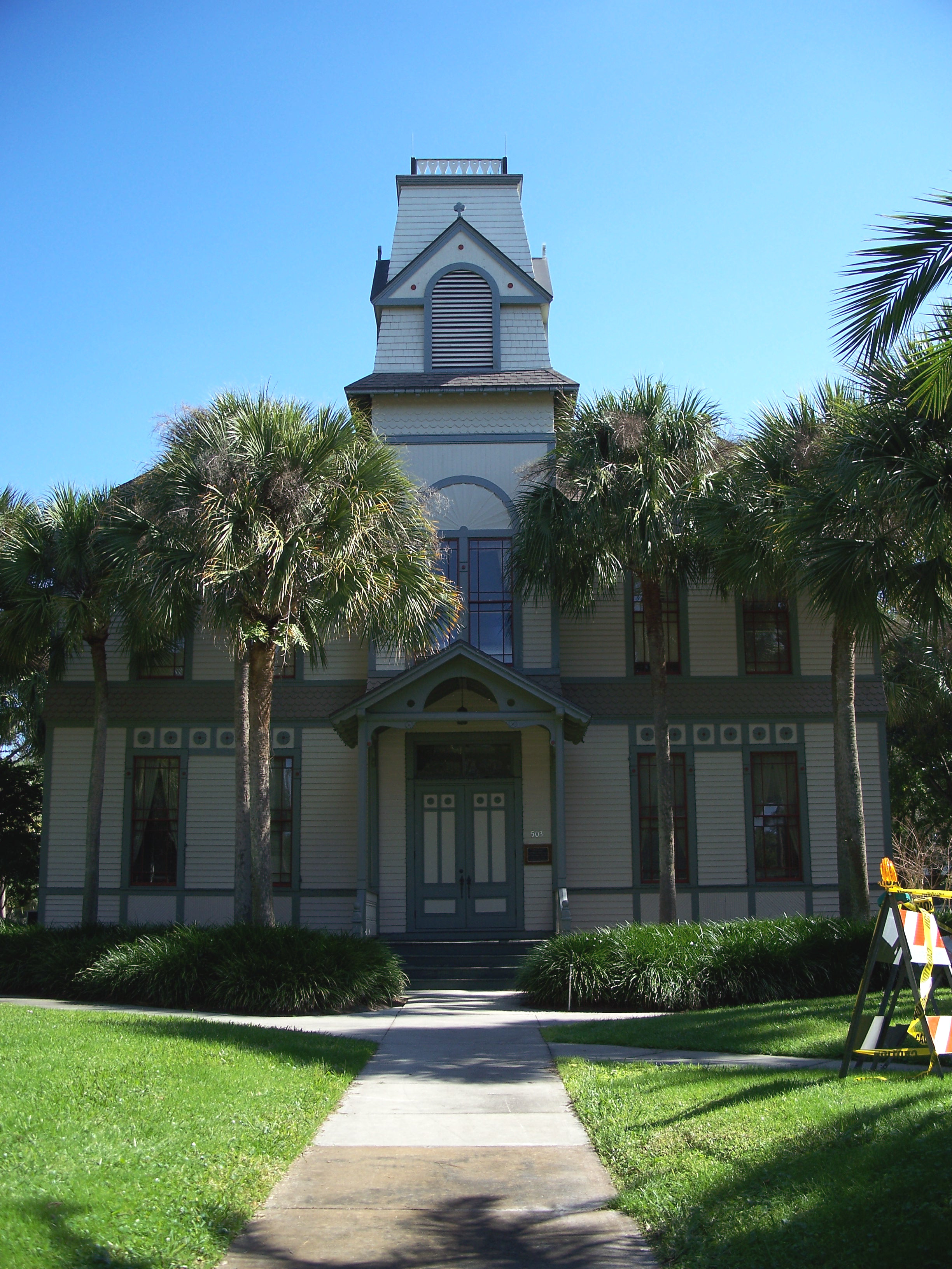 Deland Hall on the Stetson University campus, in Deland, Florida